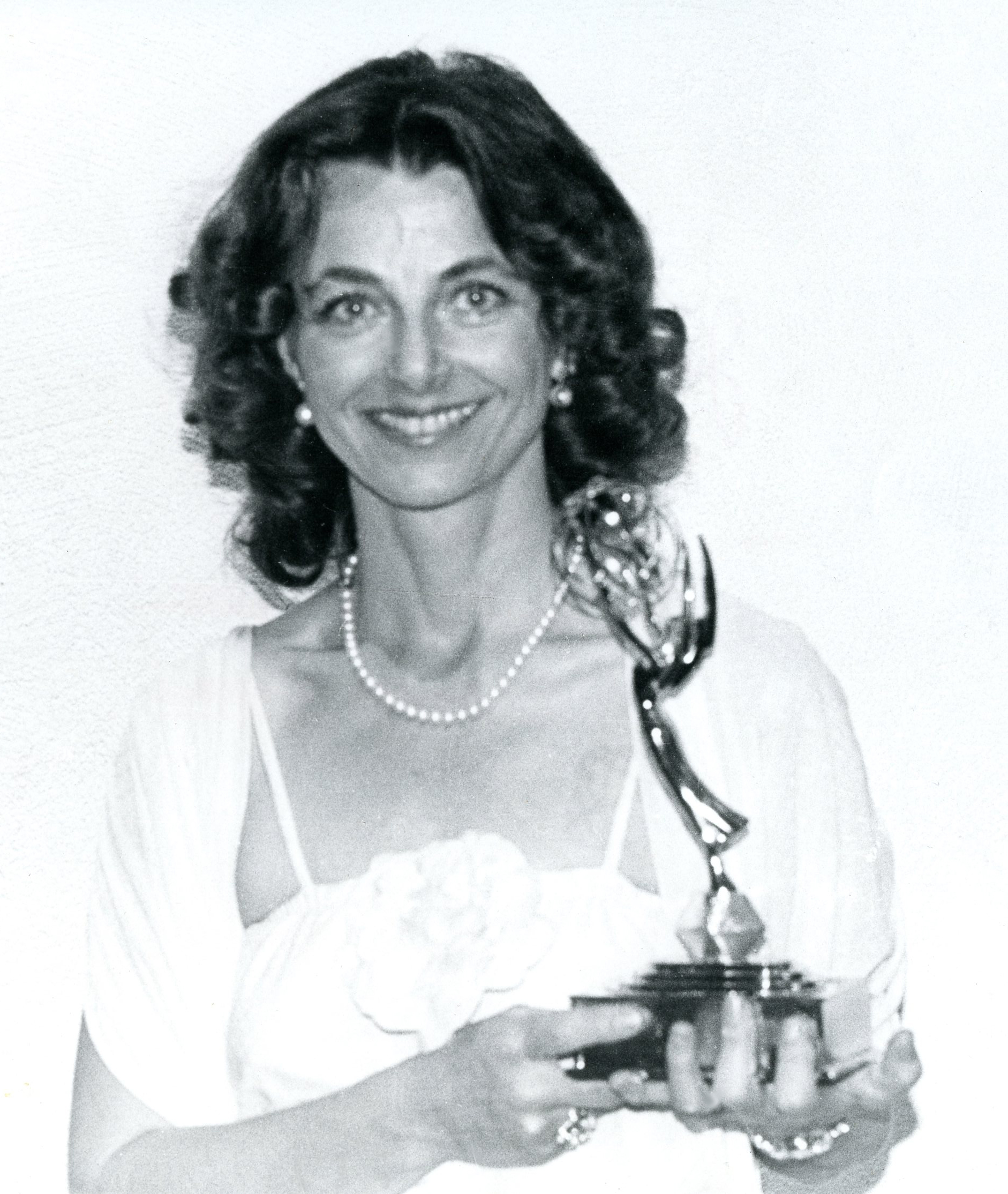 Linda Moulton Howe receiving Emmy Award